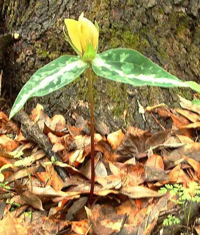 Yellow form of Trillium decipiens, Jackson Co. FL, USA